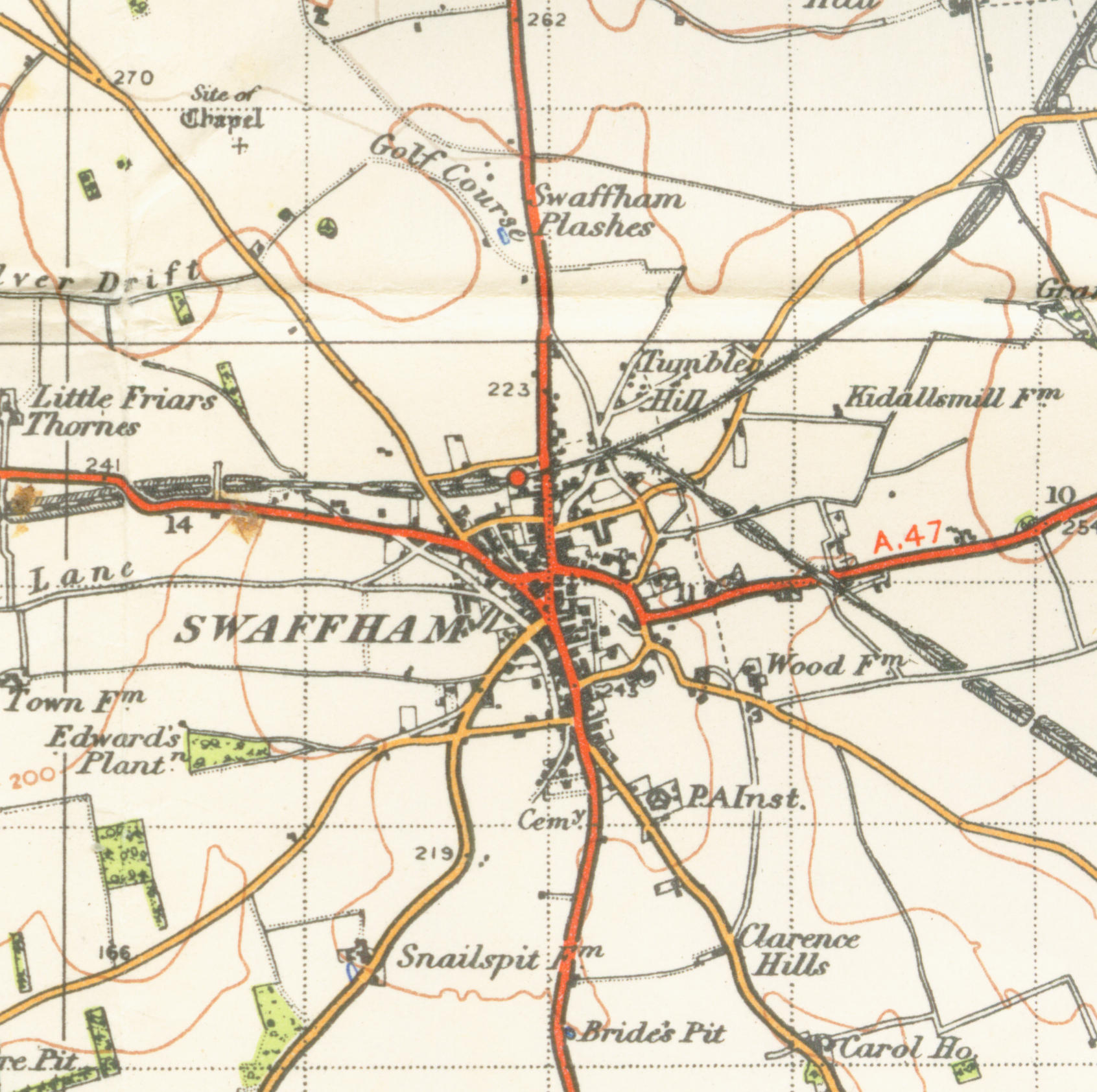 Map of Swaffham from 1946. Scale 1 inch to the mile 600DPI Sheet 125